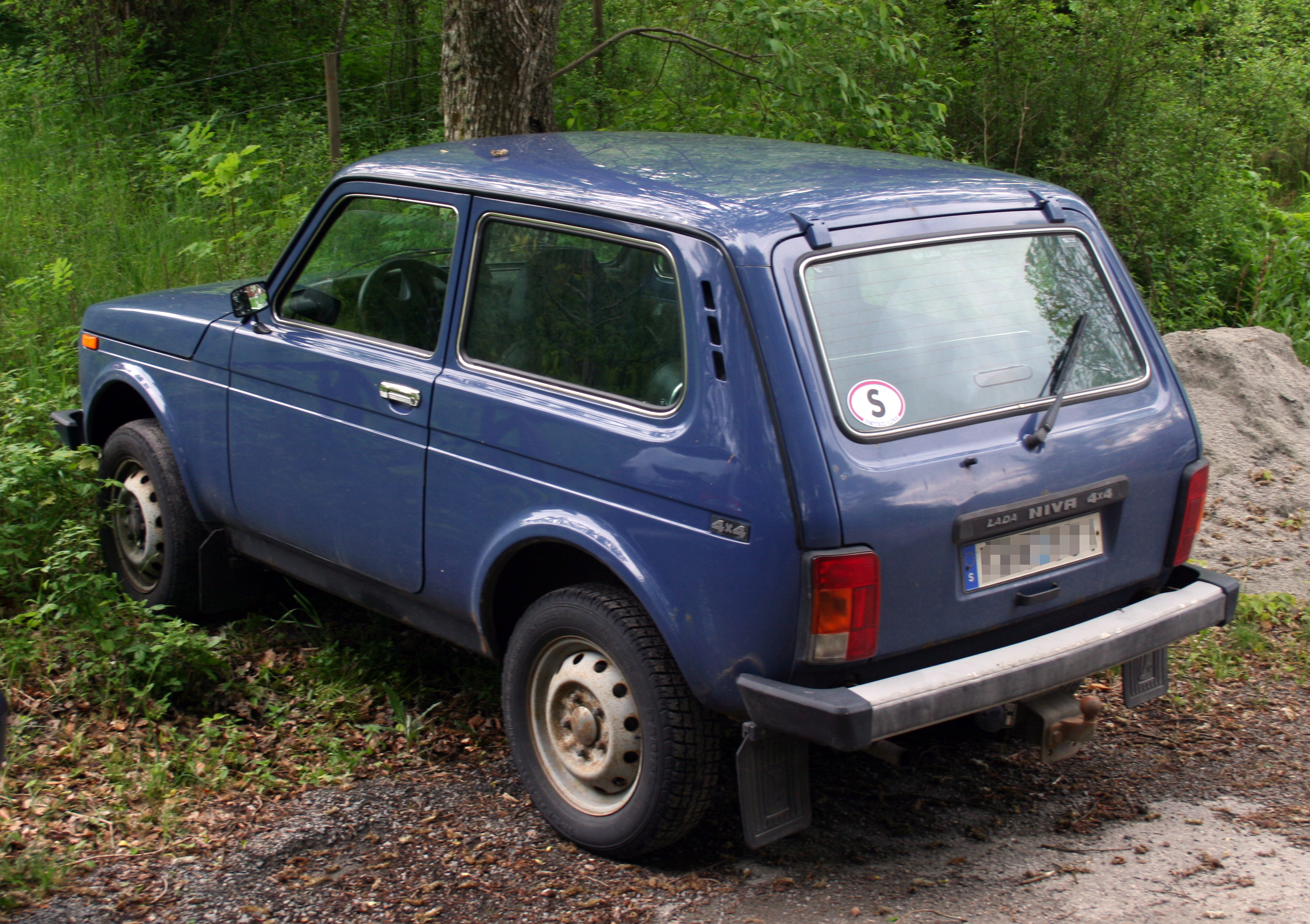 Lada Niva